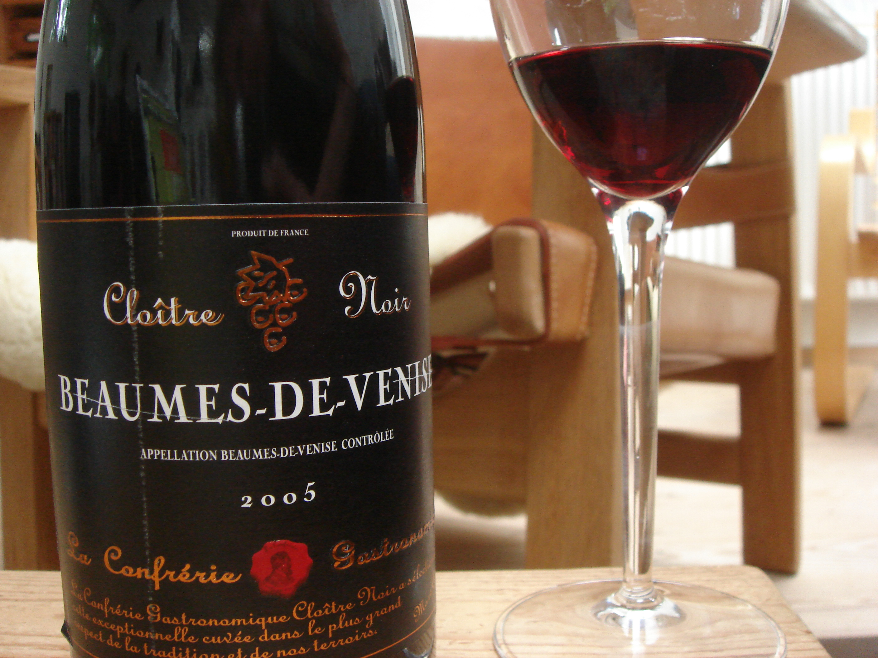 A bottle and glass of non-fortified Beaumes de Venise wine made in the French wine region of the southern Rhone Valley. Made predominantly from Grenache.